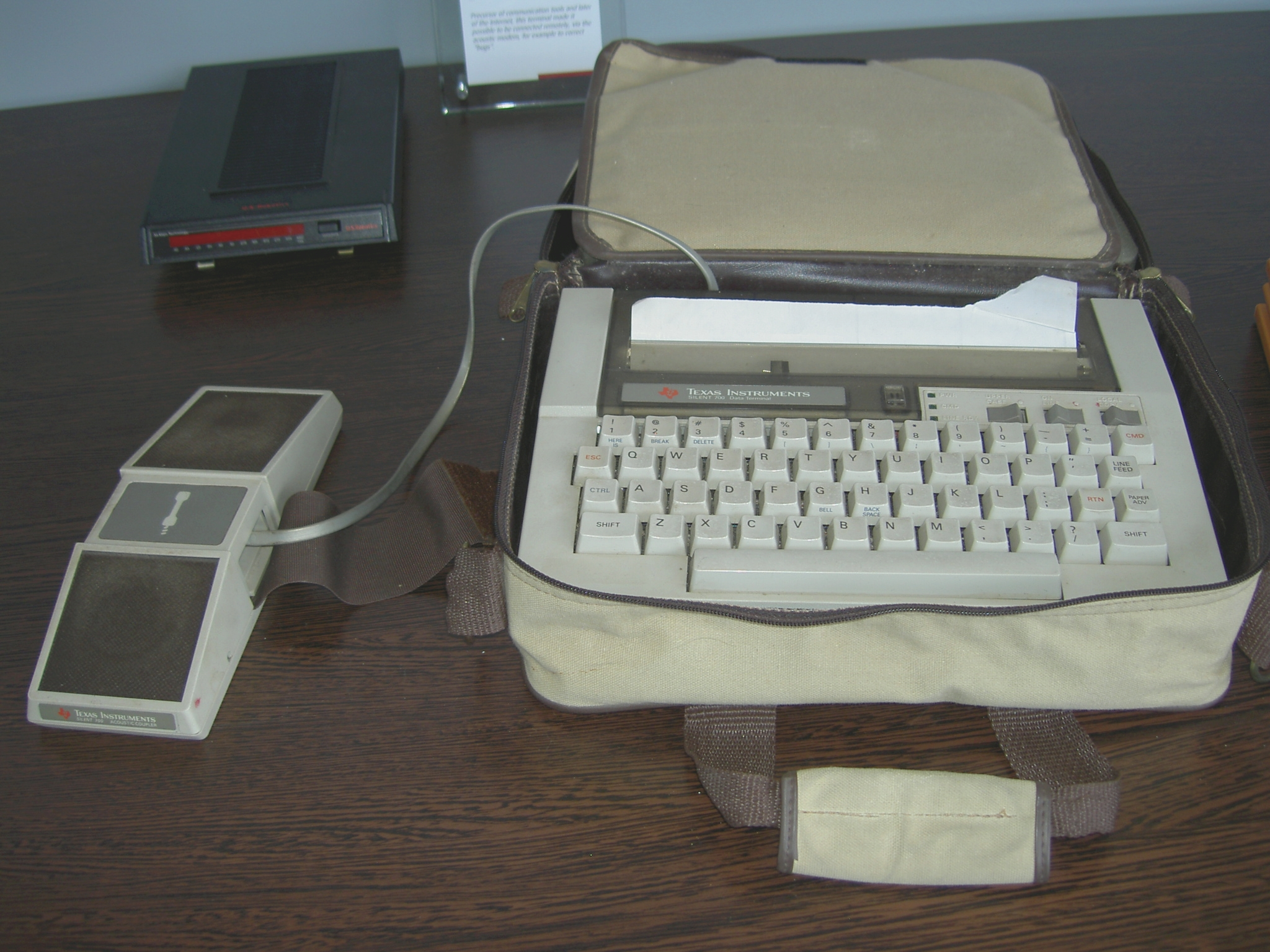 Portable computer terminal with acoustic modem and thermal transfer printer ('Silent Writer 700', Texas Instruments, 1970 - 1980)